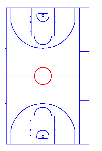 basketball